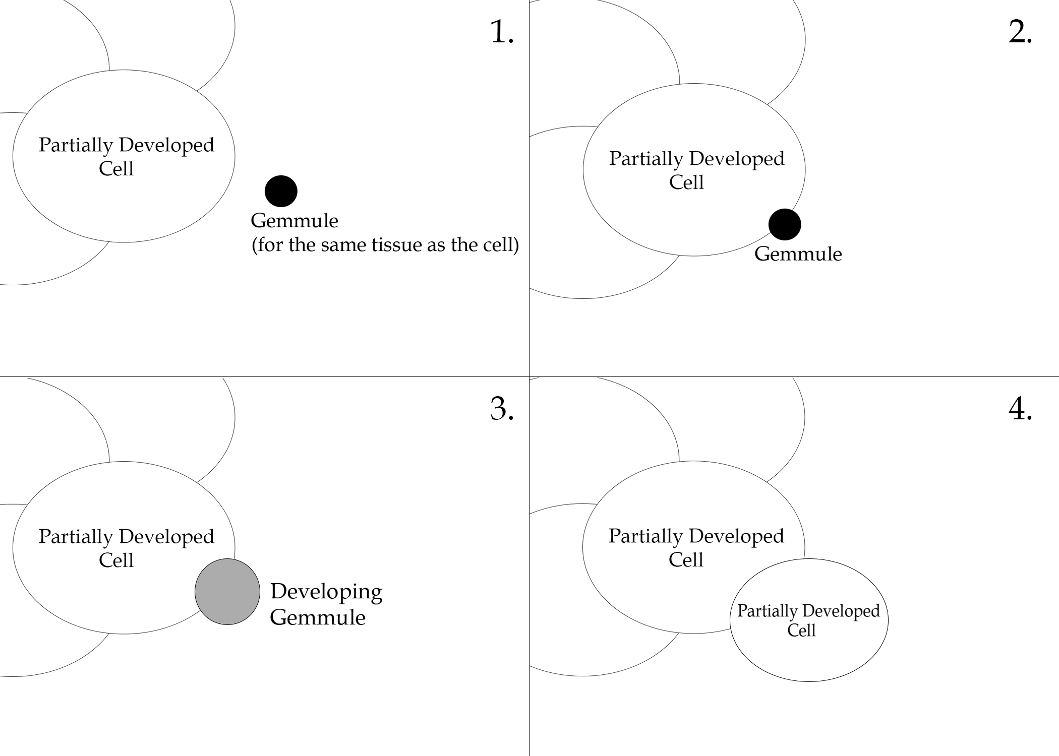 Darwin's description of tissue growth in pangenesis theory from Variation, visualized